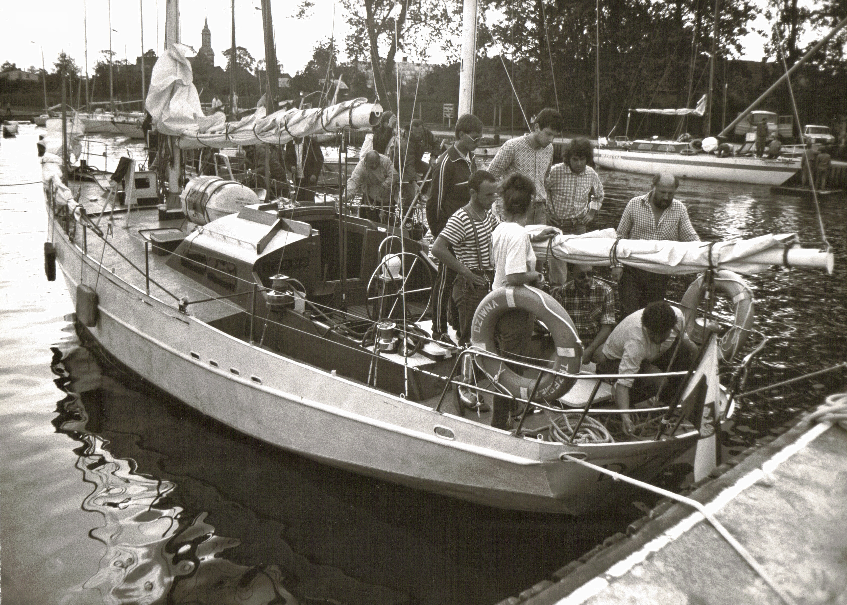 SY Dziwna & Crew in Trzebiez (Marina), Poland